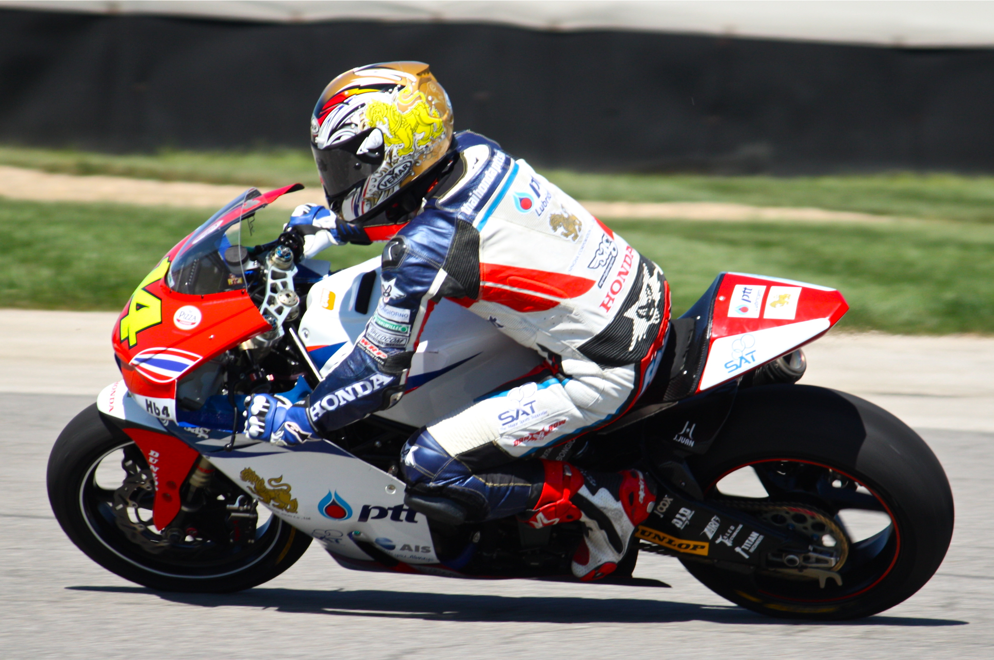 Ratthapark Wilairot on Bimota HB4 at Indianapolis